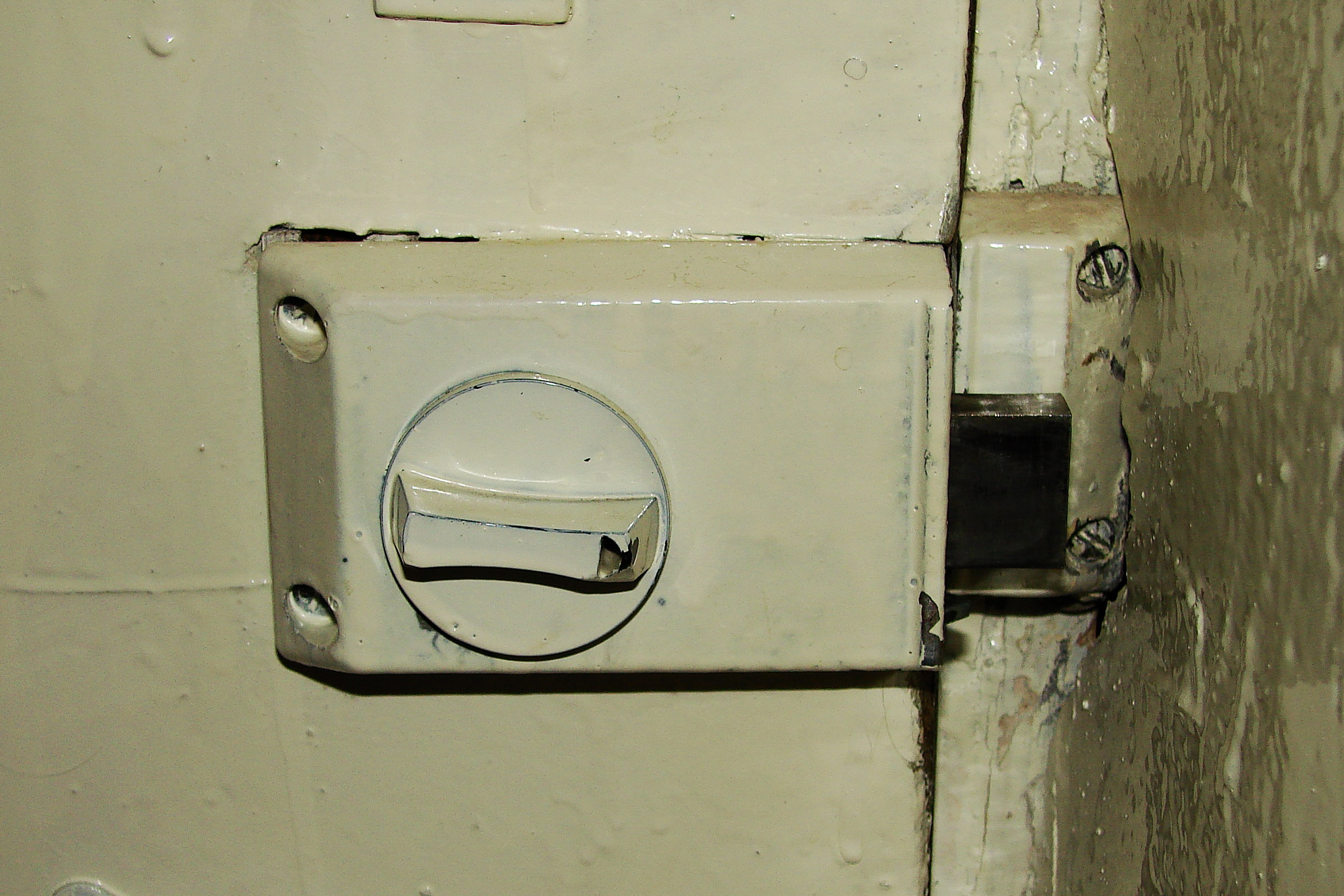 Door locks